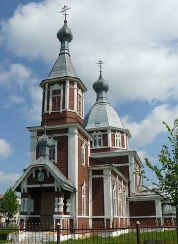 Orthodox church of Saints Peter and Paul in the village Ostrov, Liachavičy District, Brest Region, Belarus. Built in 1910